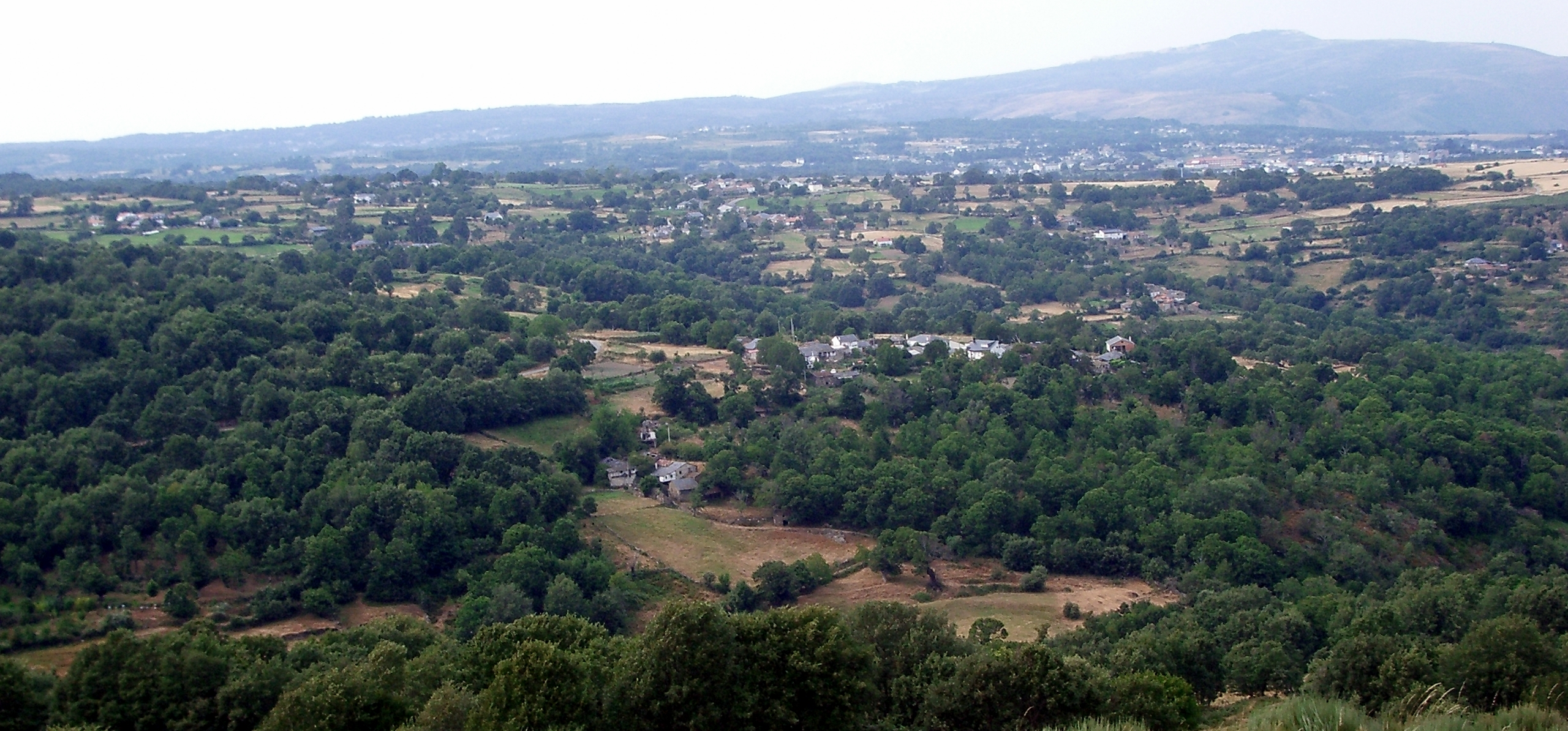 View of the pariship A Encomenda from the A Escrita summit.